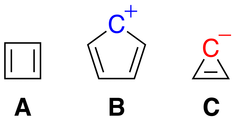 Skeletal structures of some antiaromatic compounds (A: cyclobutadiene; B: cyclopentadienyl cation; C: cyclopropenyl anion)